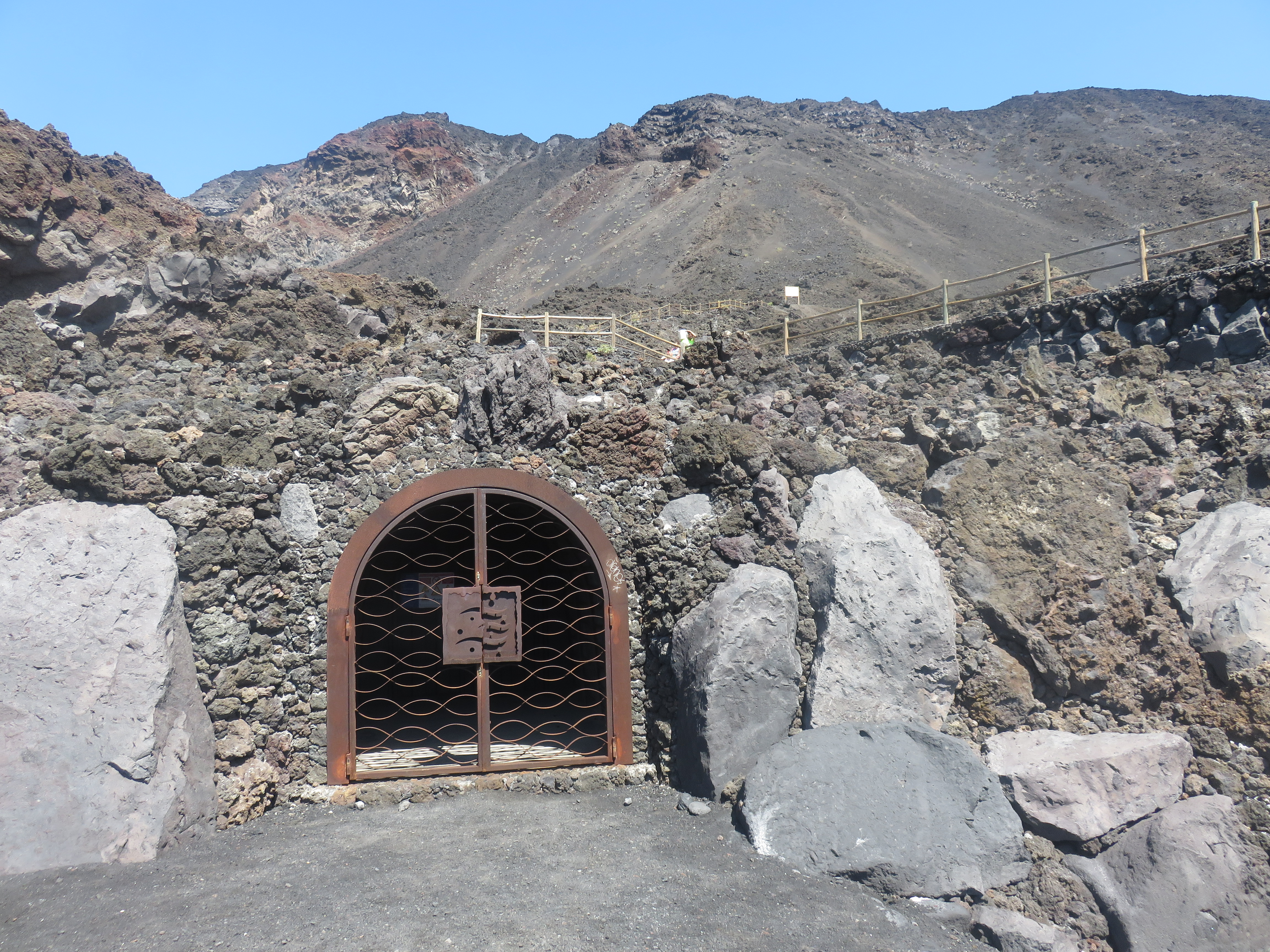 Entrance to the gallery Fuente Santa in Fuencaliente, La Palma